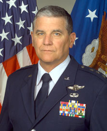 Paul K. Carlton, Jr. from [1]